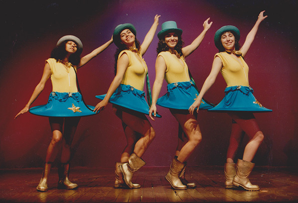 "Era Sempre 1º de Abril", de 1990: sátira ao governo de Fernando Collor e um dos grandes sucessos da dramaturgia de José Luiz Ribeiro. Foto por: Jesualdo Castro.